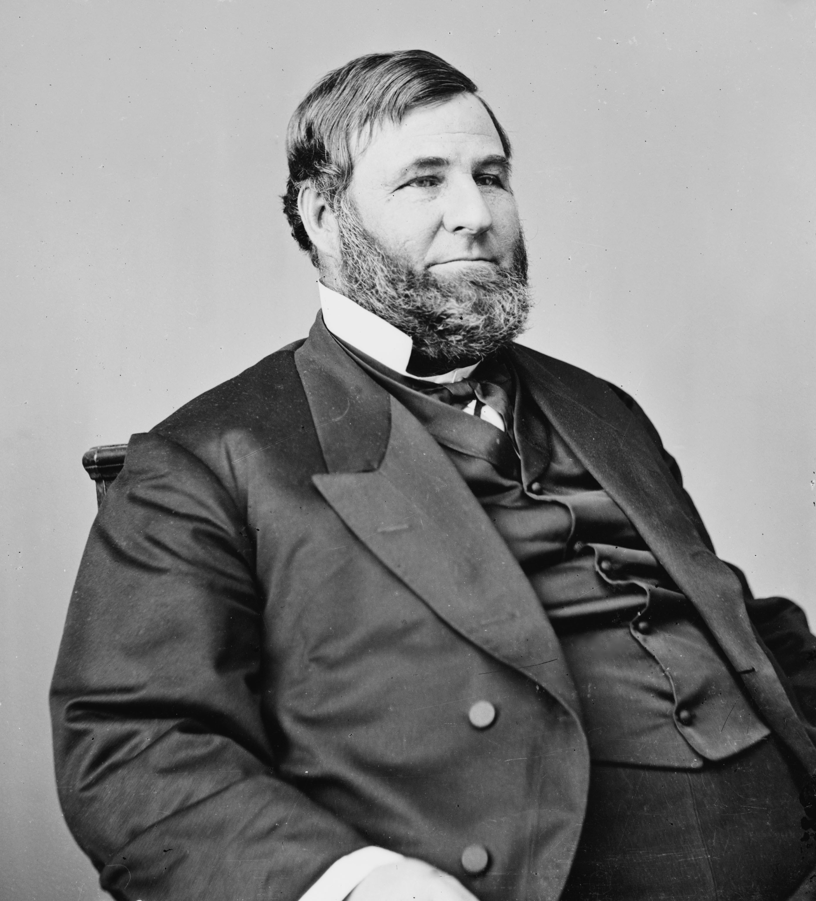 David Davis, Supreme Court Justice